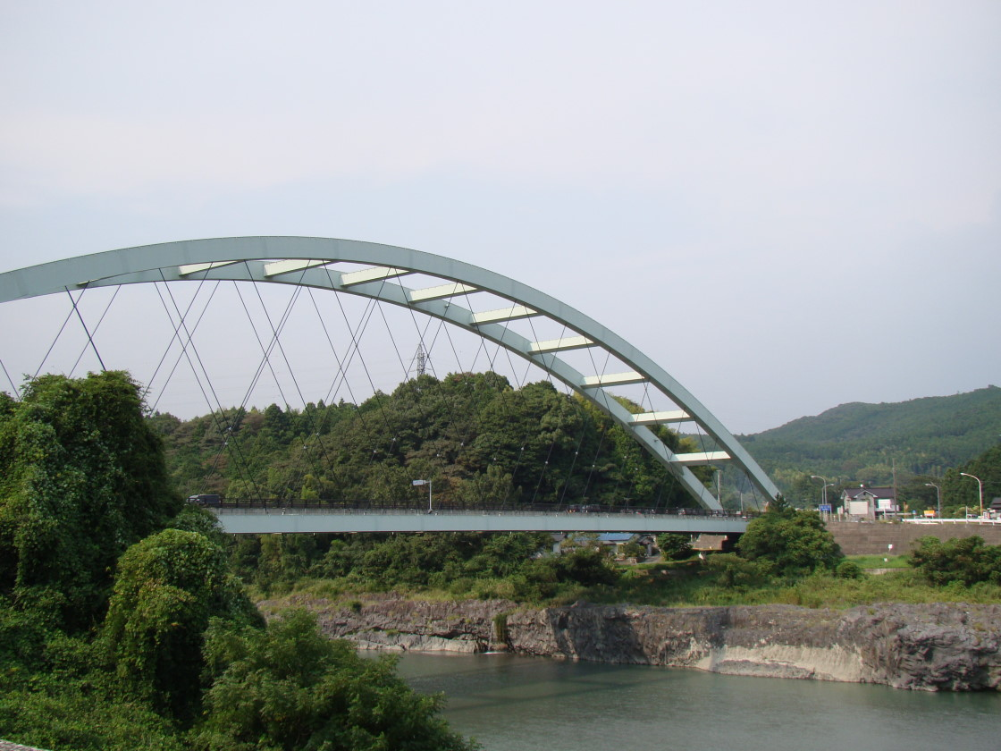 Horai-bashi (Fujikawa) Shizuoka Japan